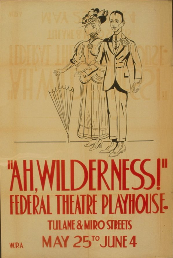 Poster for Federal Theatre Project presentation of "Ah, Wilderness!" at the WPA Federal Theatre Playhouse, Tulane & Miro Streets. Federal Theater was at 2301 Tulane Avenue at the corner of Miro, Mid-City New Orleans. (Library of Congress incorrectly lists this as Los Angeles, Calif, presumably from confusion over the abbreviation "LA".)